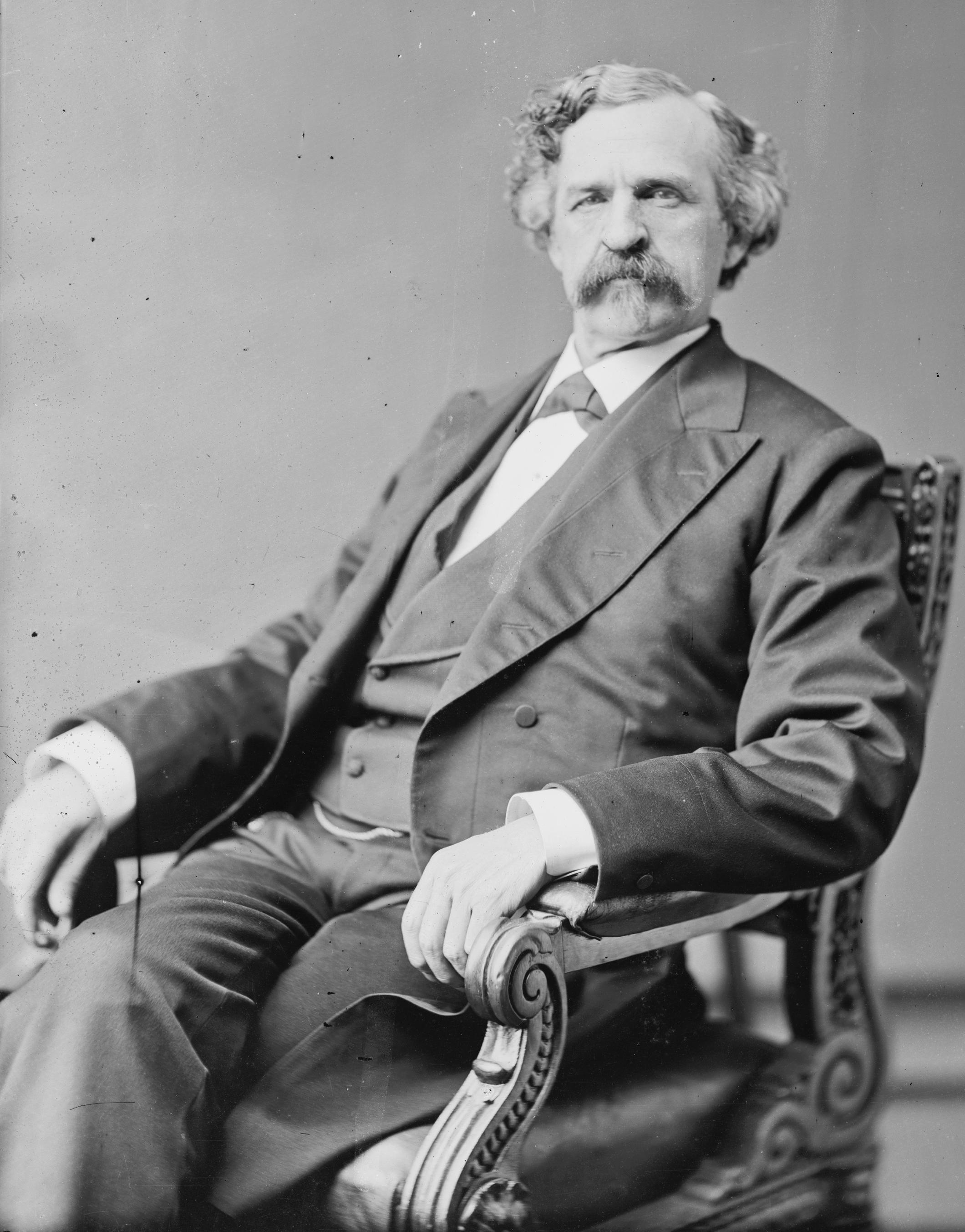 John J. Patterson. Library of Congress description: "Patterson, Hon. John James of S.C. (Born in PA. 1830) Delegate to Nat. Republican Convention at Chicago 1860, Capt in 15th U.S. Vol. Inf.".